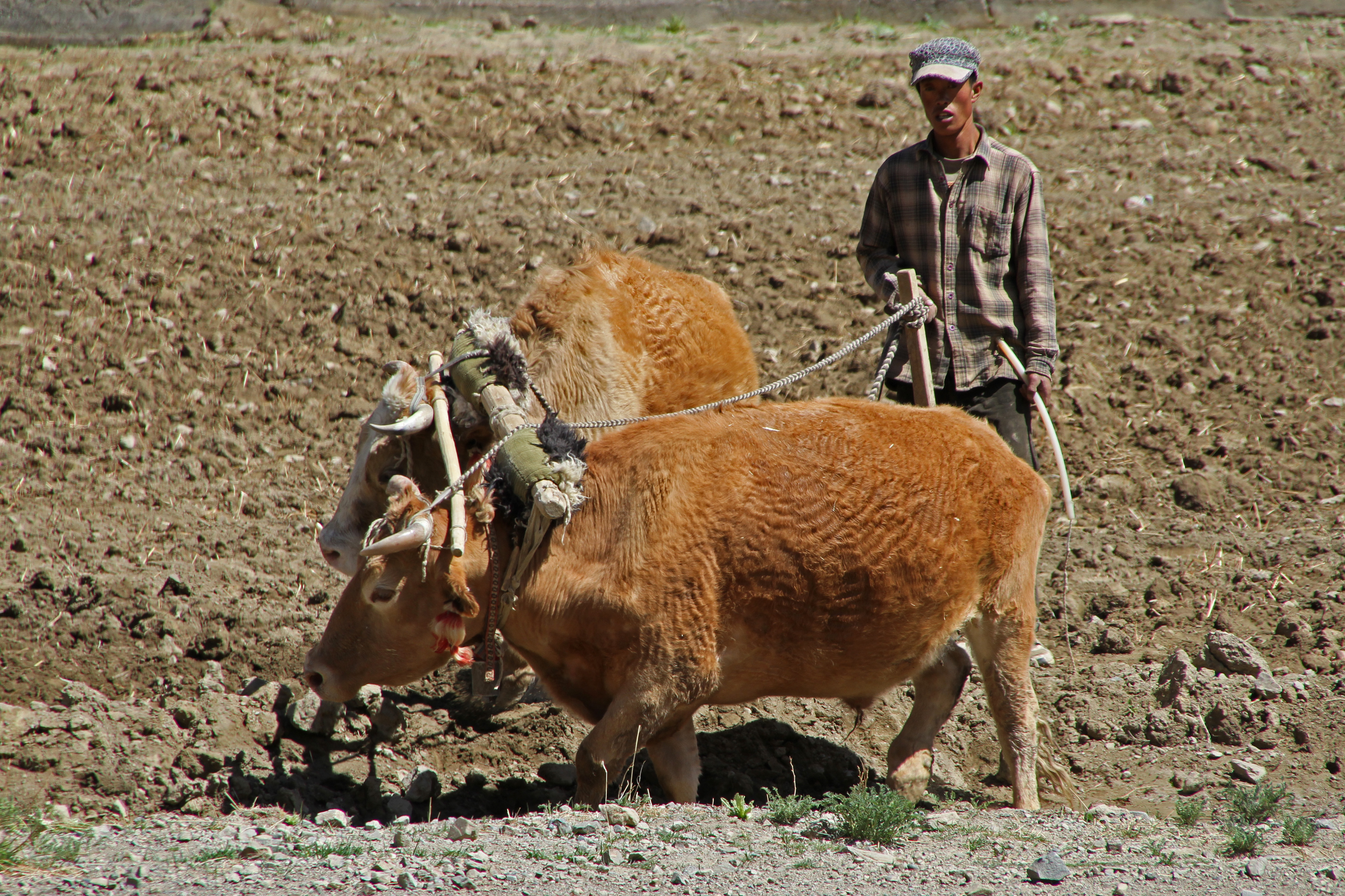 Agriculture in Xigazê prefecture in Tibet